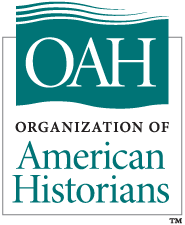 Organization of American Historians logo, October 2010.